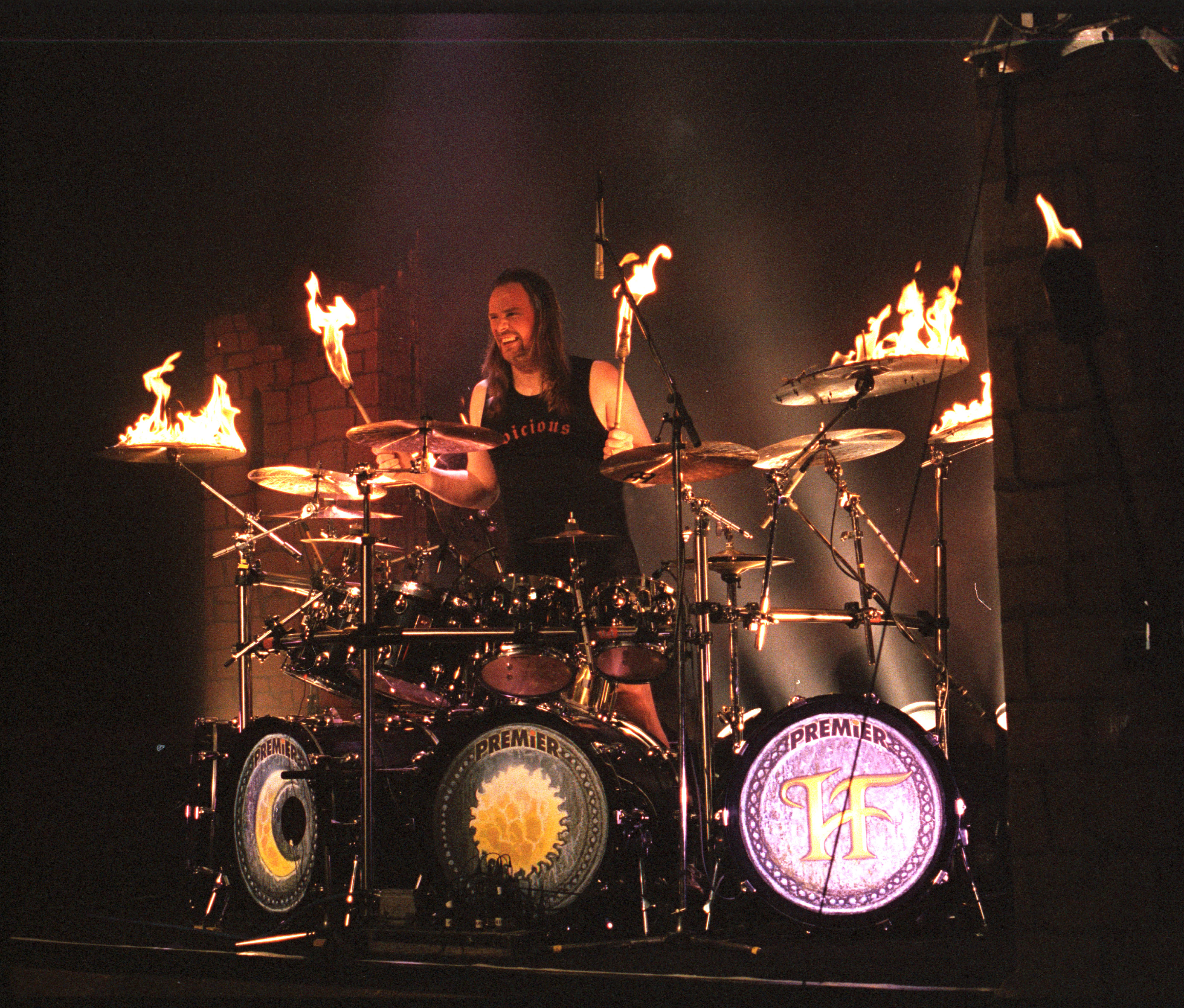 Anders Johansson's kit on fire.